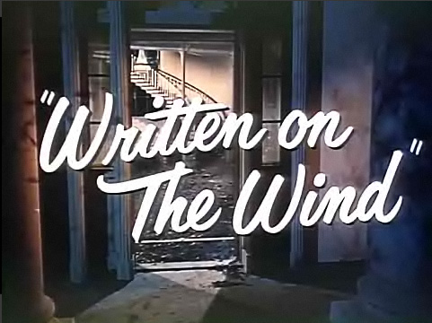 Screenshot from the trailer for the film Written on the Wind